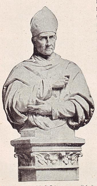 Side bust in the monument group № 16 in the former Siegesallee in Berlin commemorating the Chancellor and Bishop Friedrich Sesselmann. Sculptor: Alexander Calandrelli. The sculpture was unveiled on 22 December 1898.